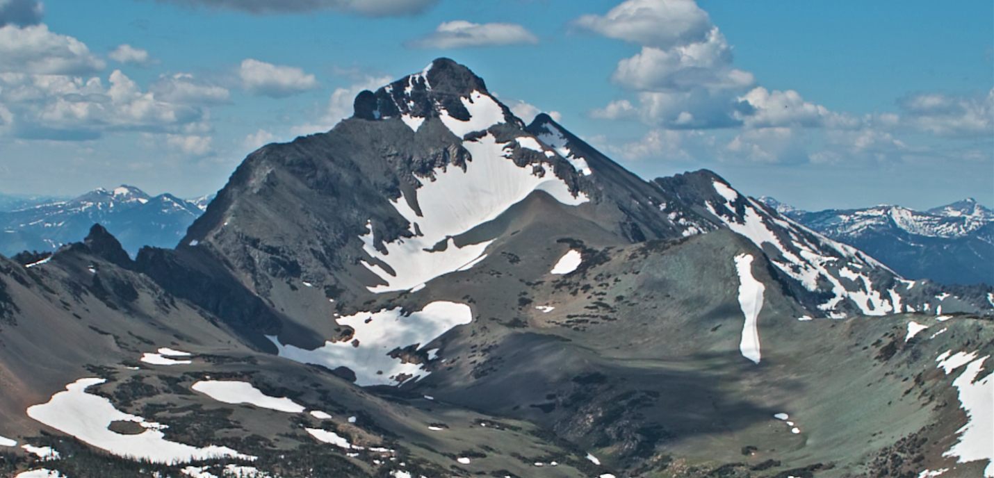 Summit Mountain